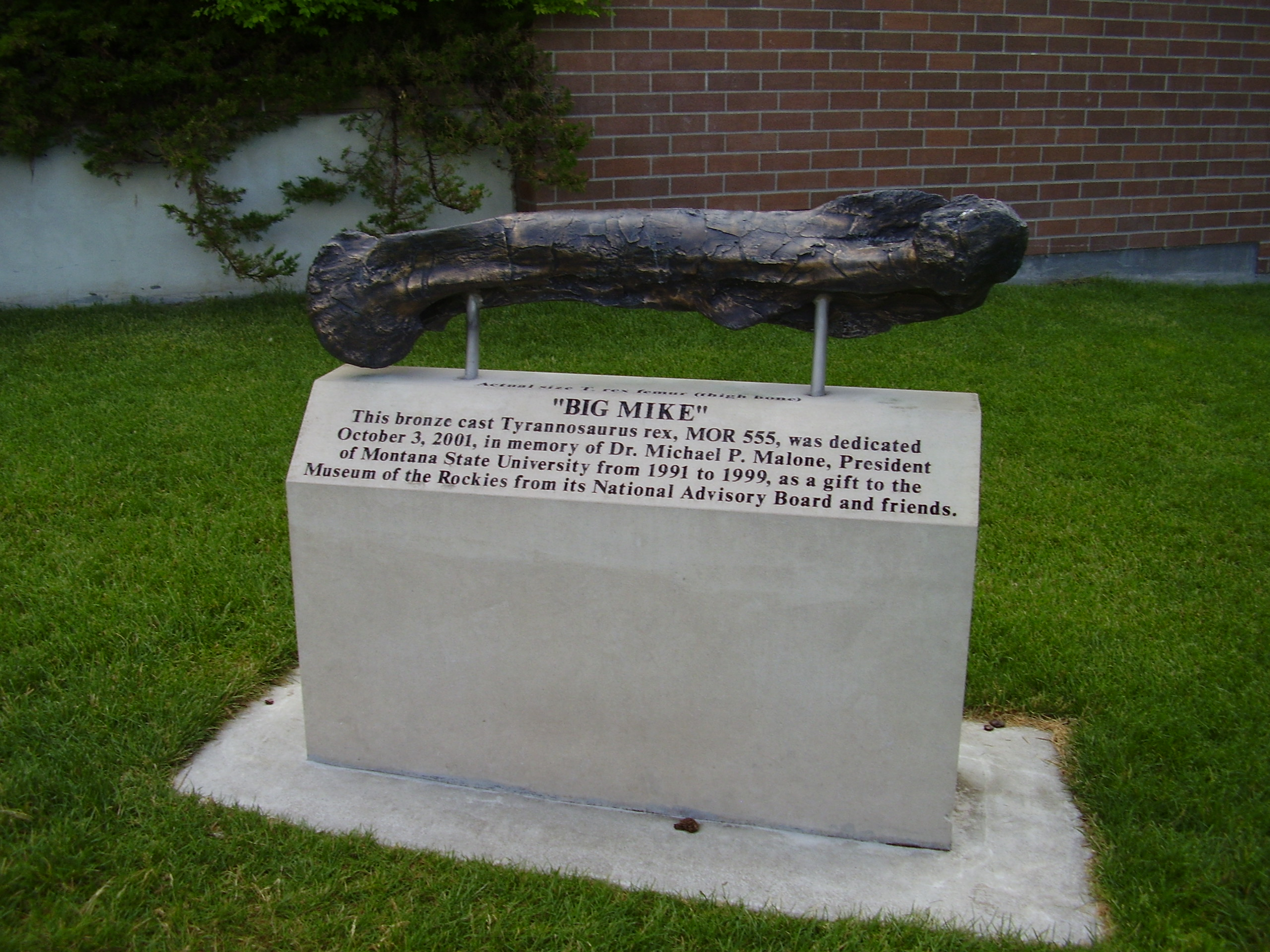 Bronze cast of a T. rex bone in front of the Museum of the Rockies buiding.